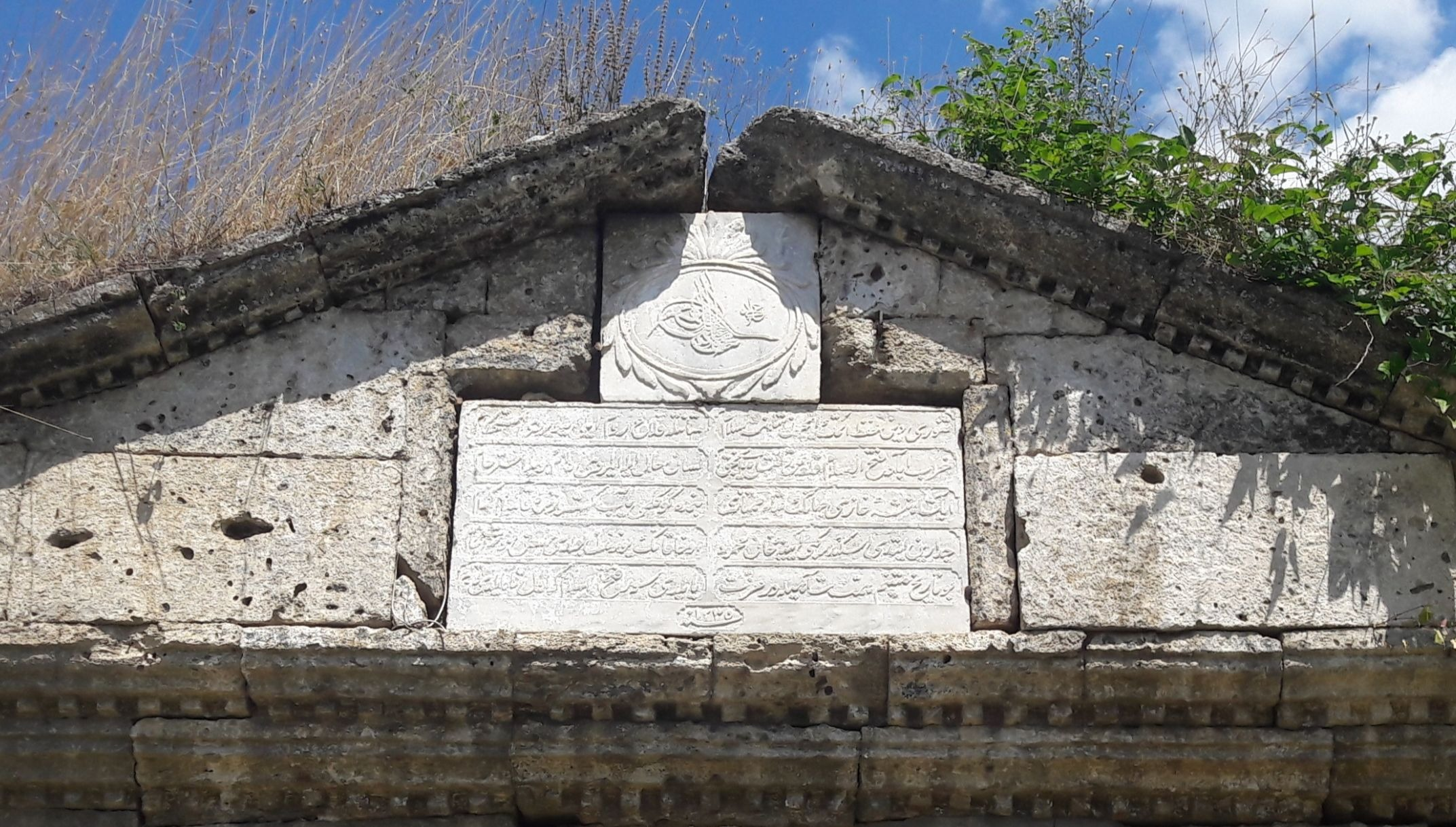 The inscription above the gate of Fetislam fortress near Kladovo, Serbia.